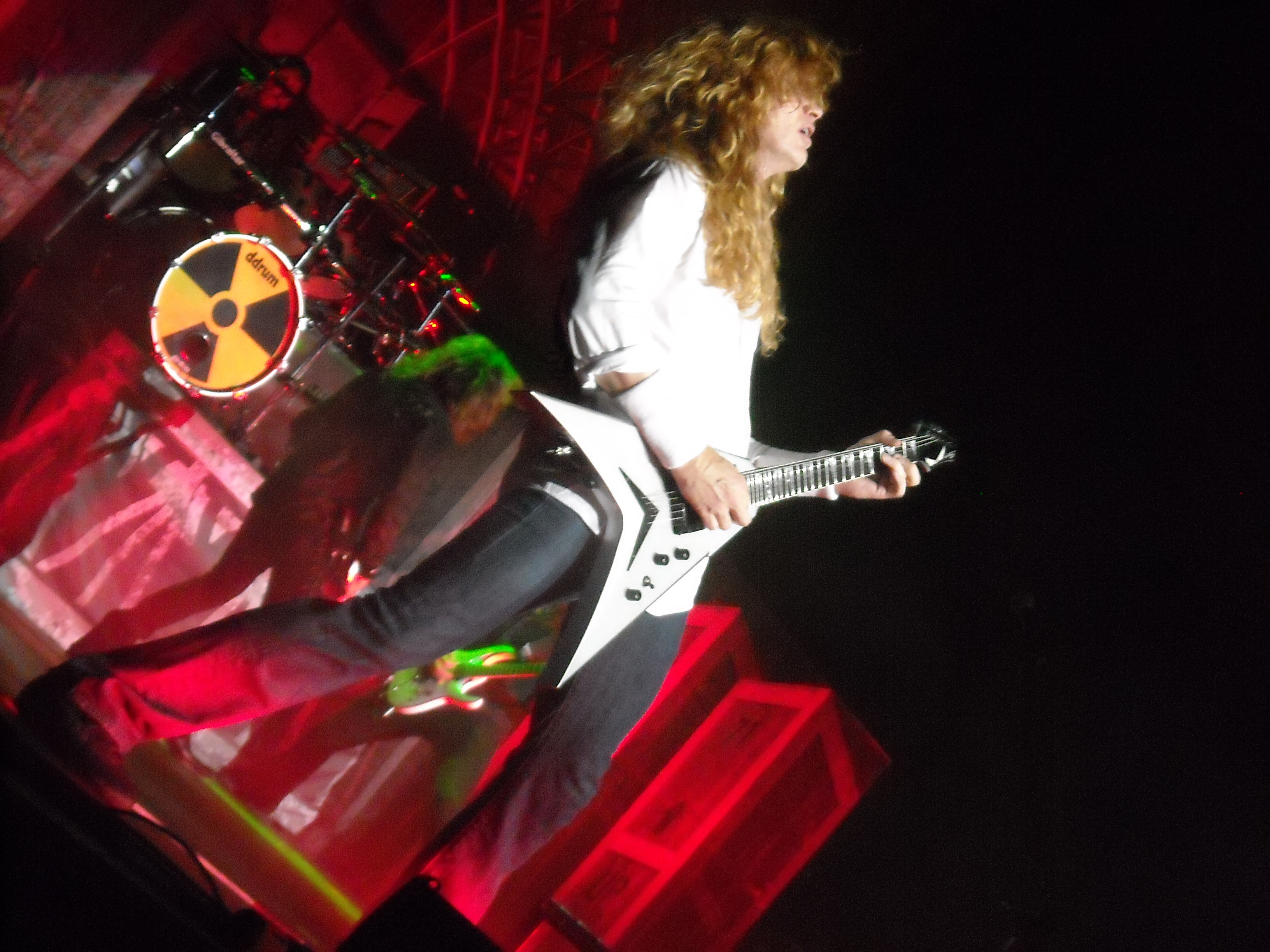 Dave Mustaine of Megadeth performing at the Izod Center in East Rutherford, New Jersey.